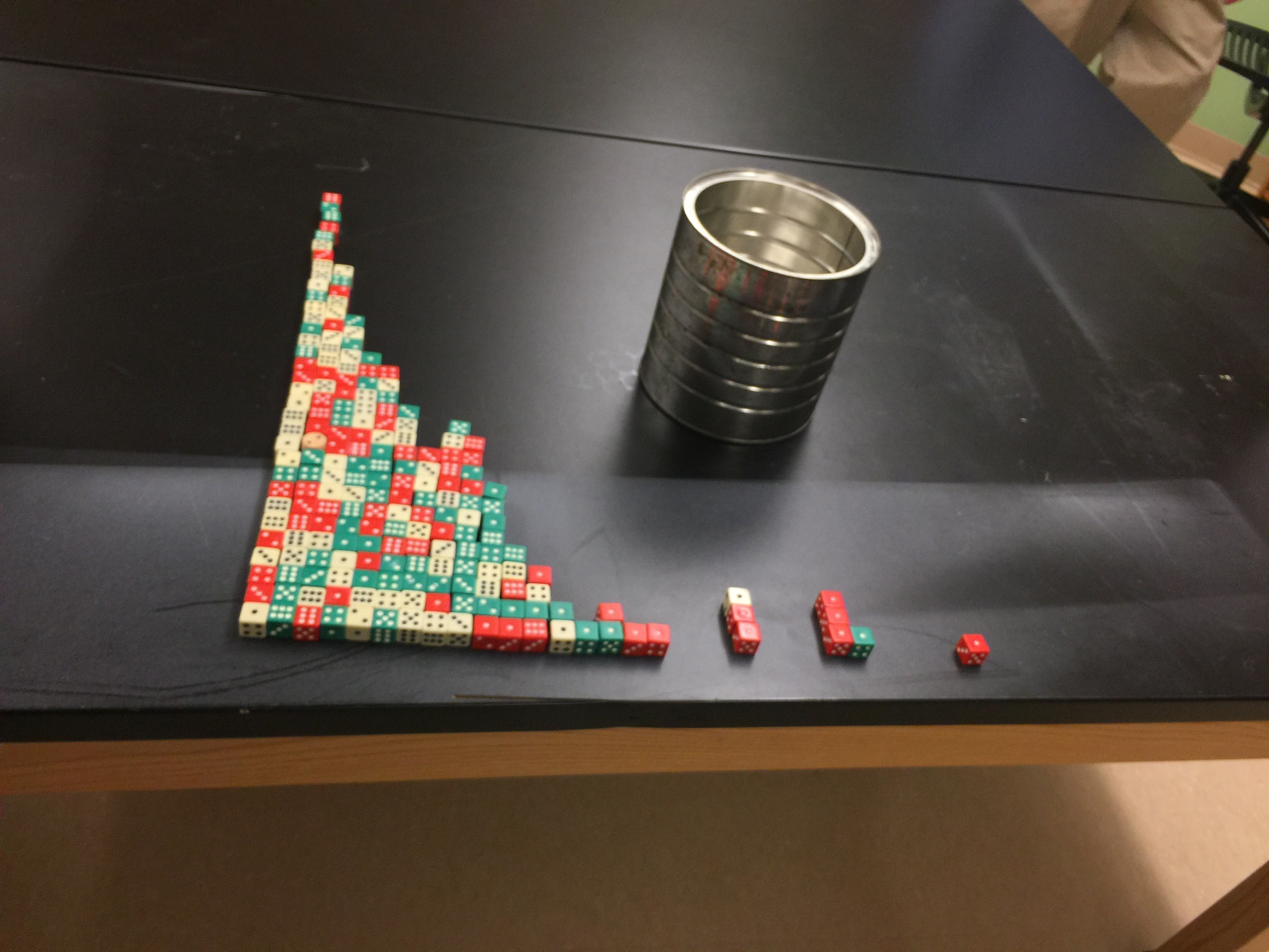 ASTRO 1060 lab photo